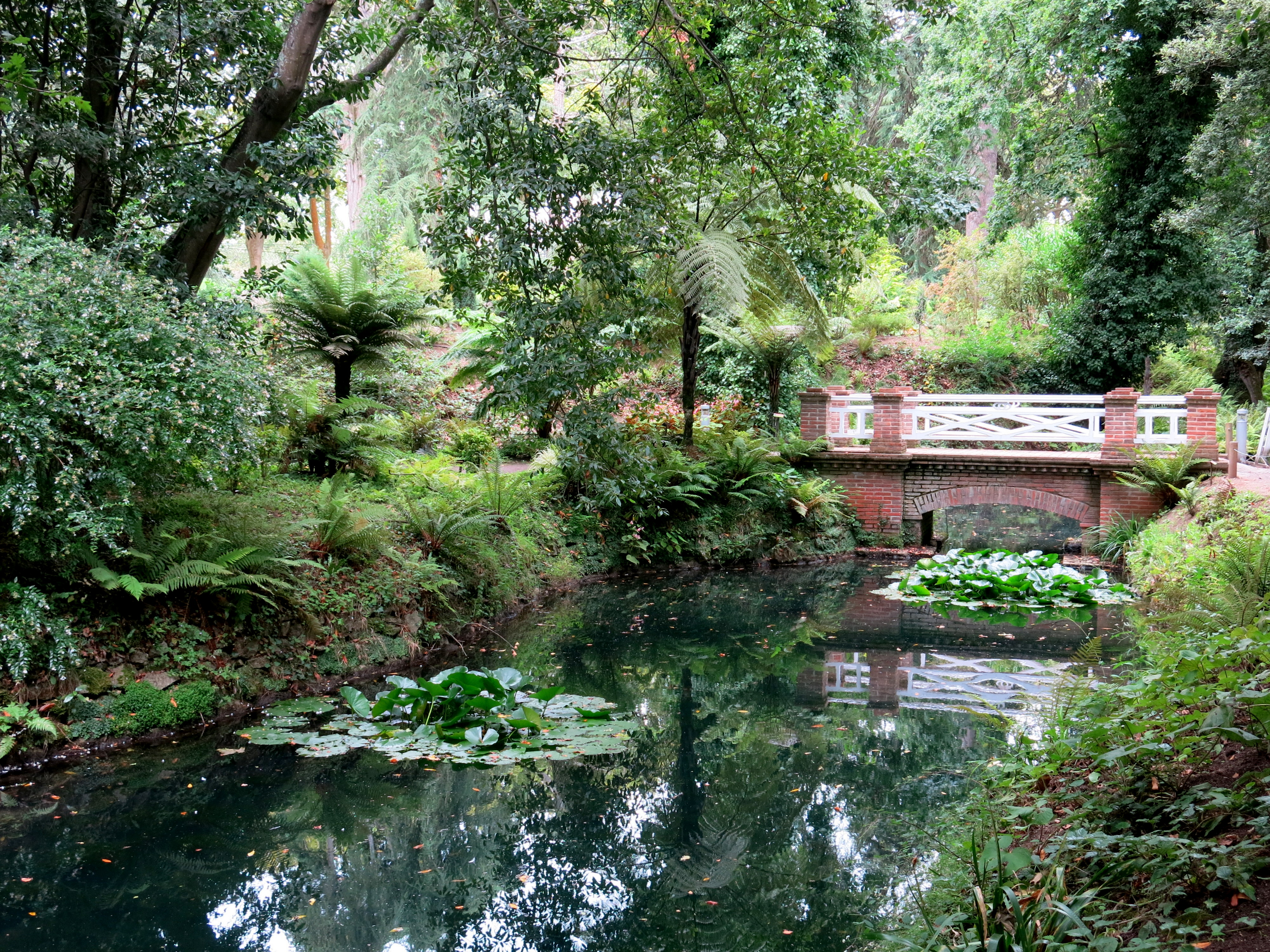 Jardín Botánico Atlántico de Gijón